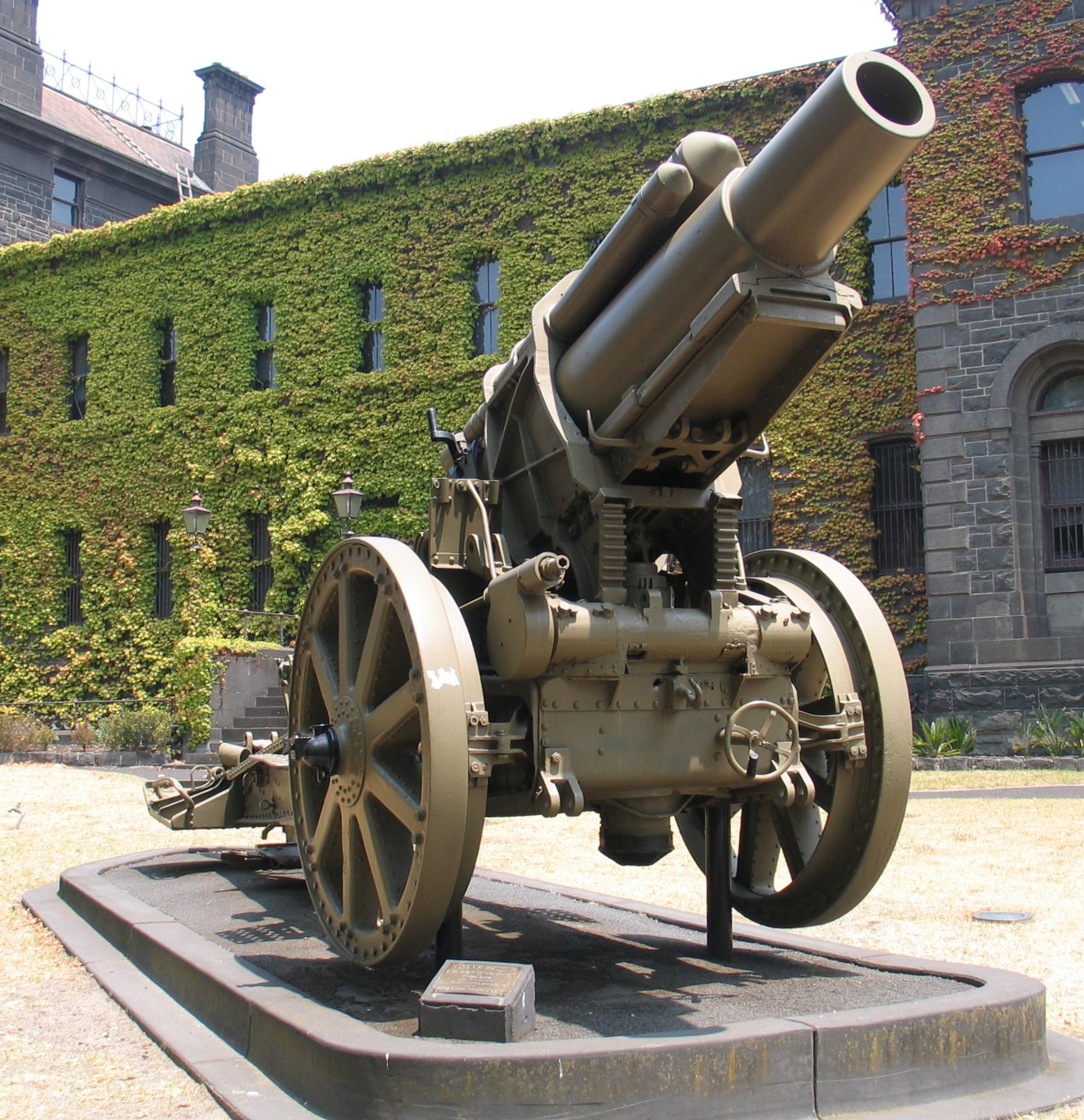 A gun near Victoria Barracks, Melbourne, Australia. The gun is labeled as German howitzer, captured on 18-19 Sep 1918 near St Quentin. Apparently a 21 cm Mörser 10.